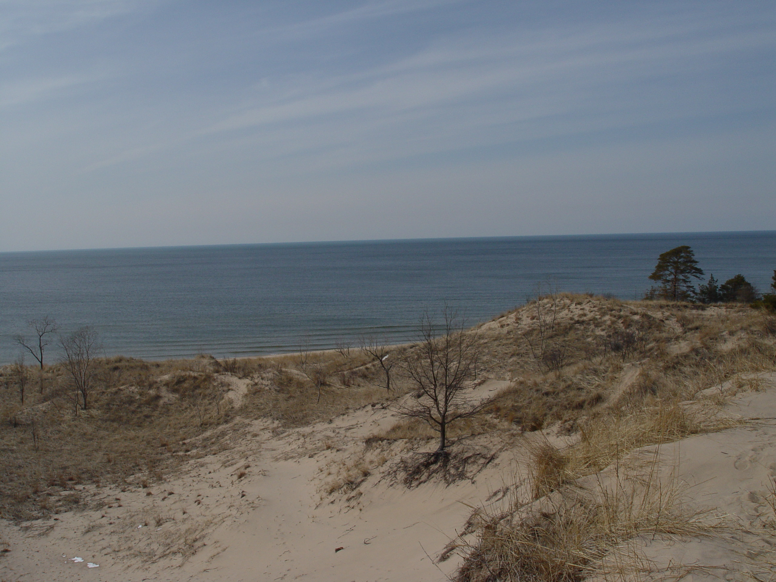 I took this image overlooking the shoreline at Saugatuck Dunes State Park.